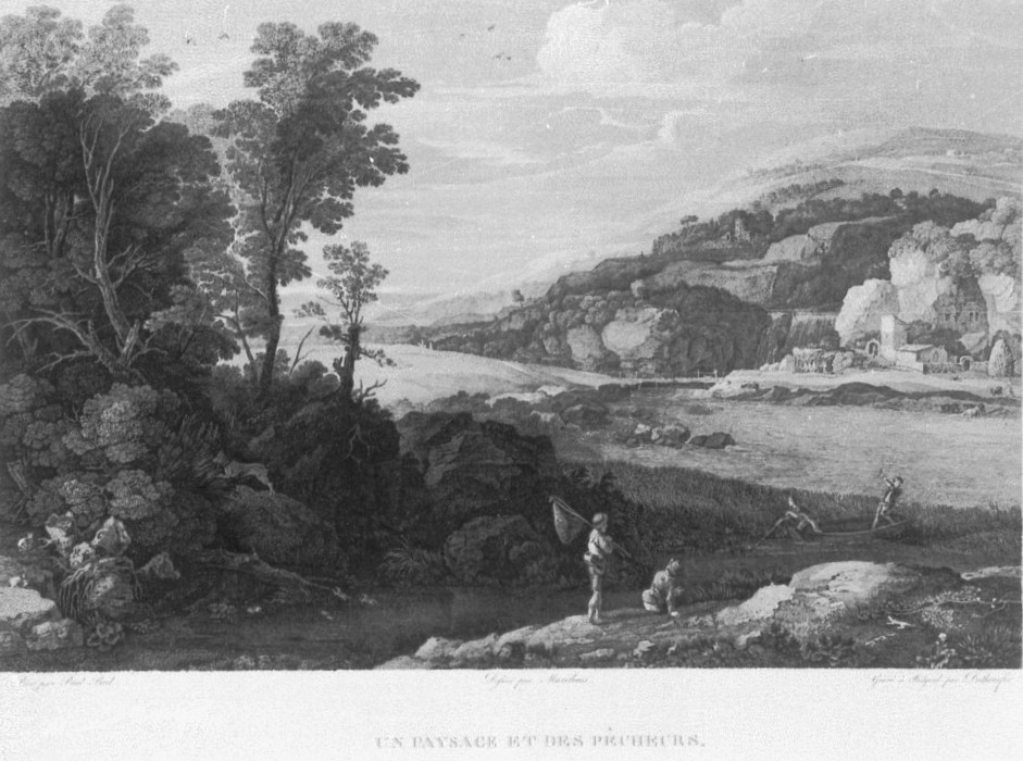 Christian Friedrich Traugott Duttenhofer: Landscape with fishermen, 1803-1809.